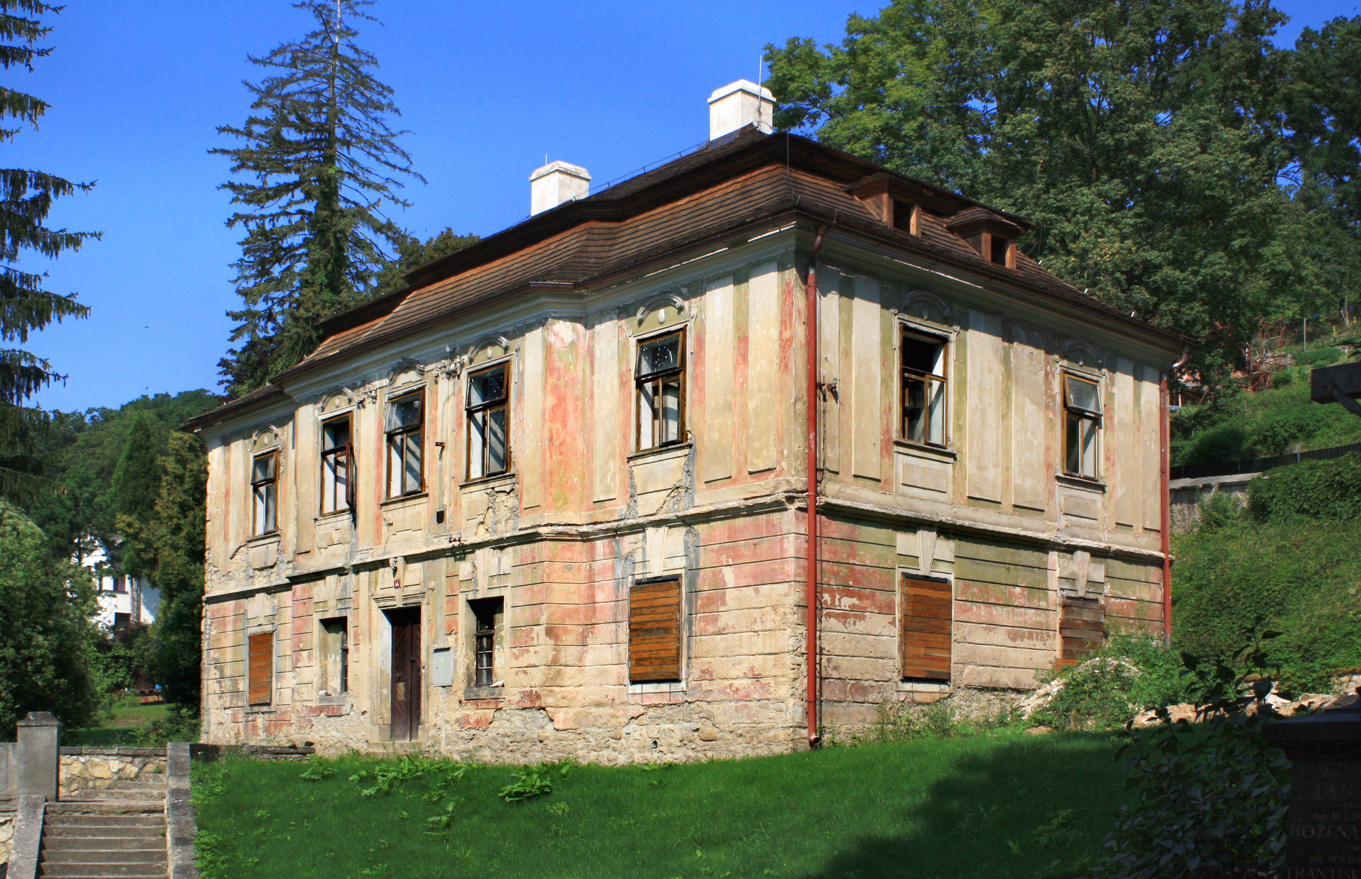 Rectory in Krnsko, Czech Republic